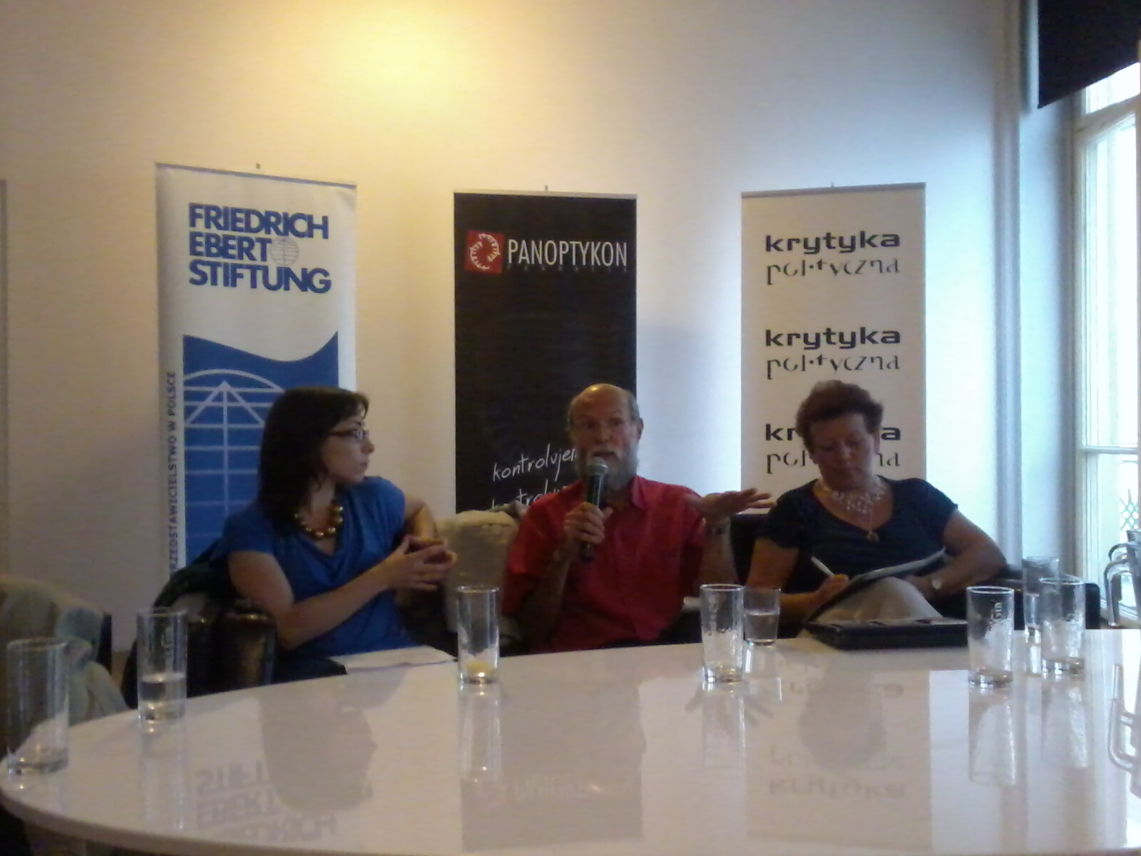 Prof. David Lyon in Warsaw (in center).